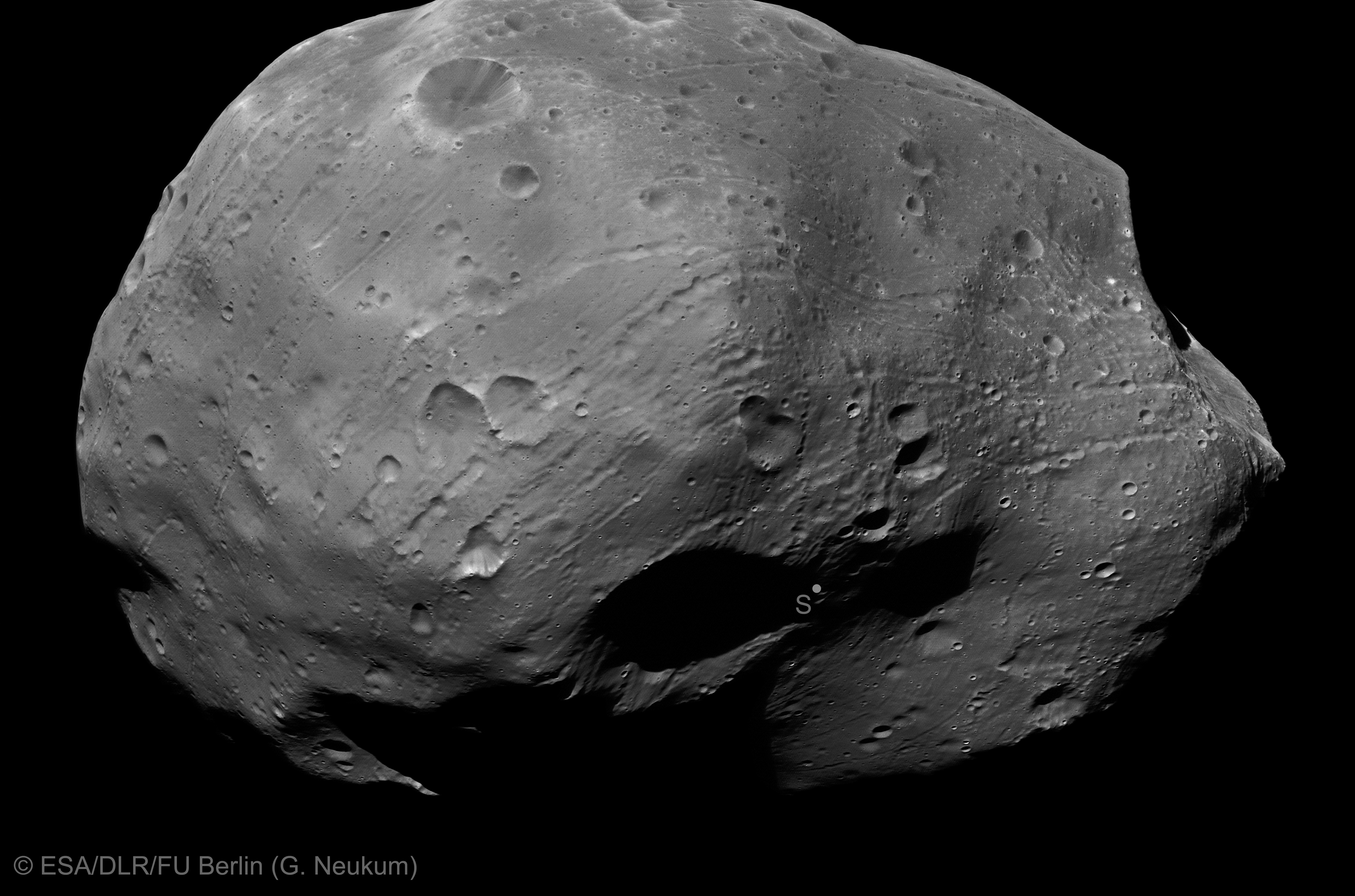 This image has been photometrically enhanced to illuminate darker areas. Resolution: 4.1 m/pixel.